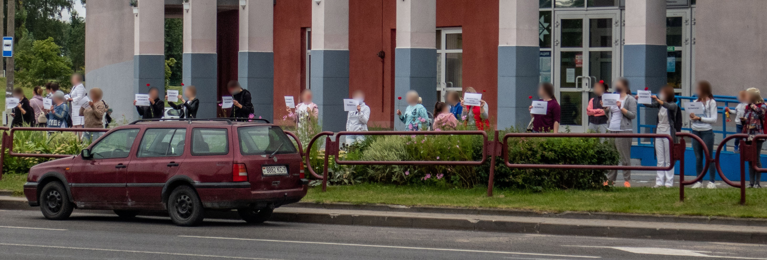 Local spontaneous meeting against repressions and falsifictations. Zavodsky district, Minsk, Belarus